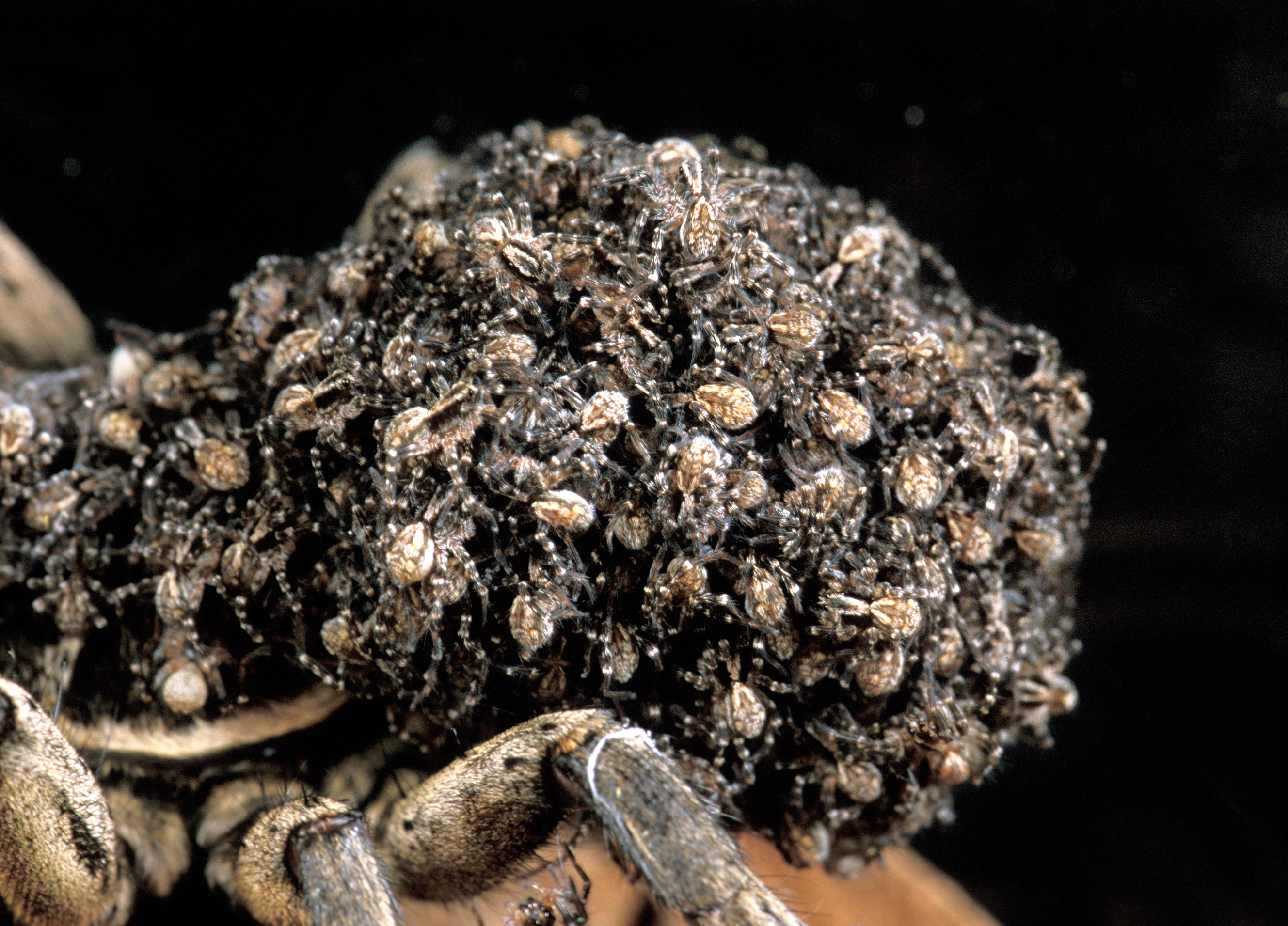 A mother Godeffroy's wolf spider (Lycosa godeffroyi) with her spiderlings. Class: Arachnida Order: Araneae Family: Lycosidae